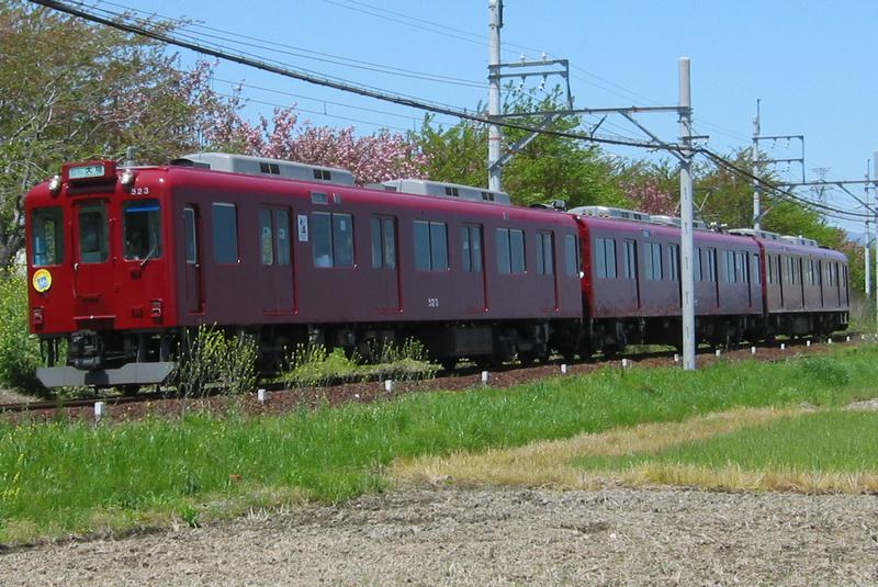 Kintetsu Yoro Line (now Yoro Railway Yoro Line) 620 Series train.